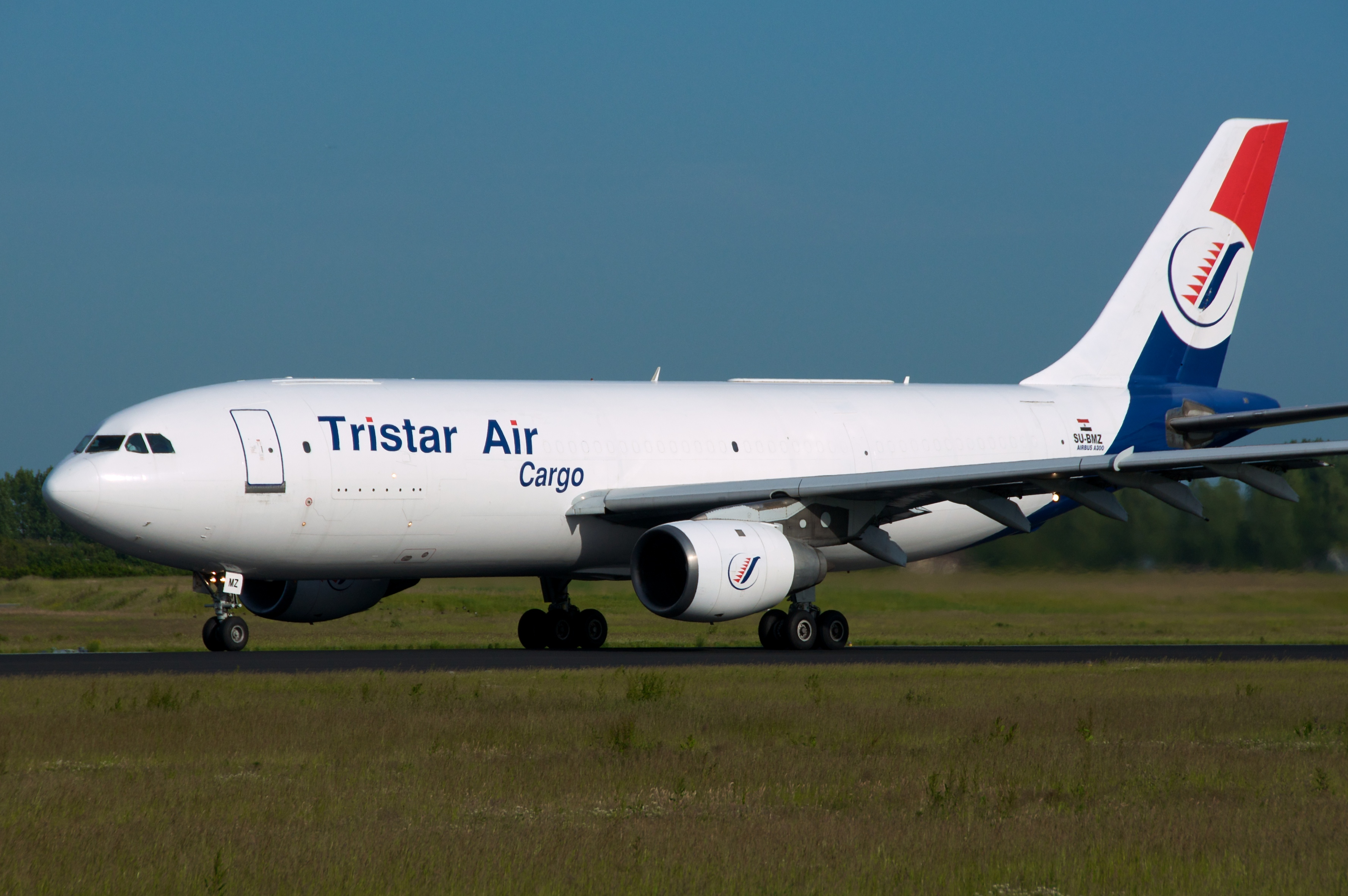 Tristar Air Cargo A300B4 SU-BMZ at Amsterdam Schiphol (landed on a public road near Mogadishu in Somalia on 12 October 2015, damaged beyond repair)